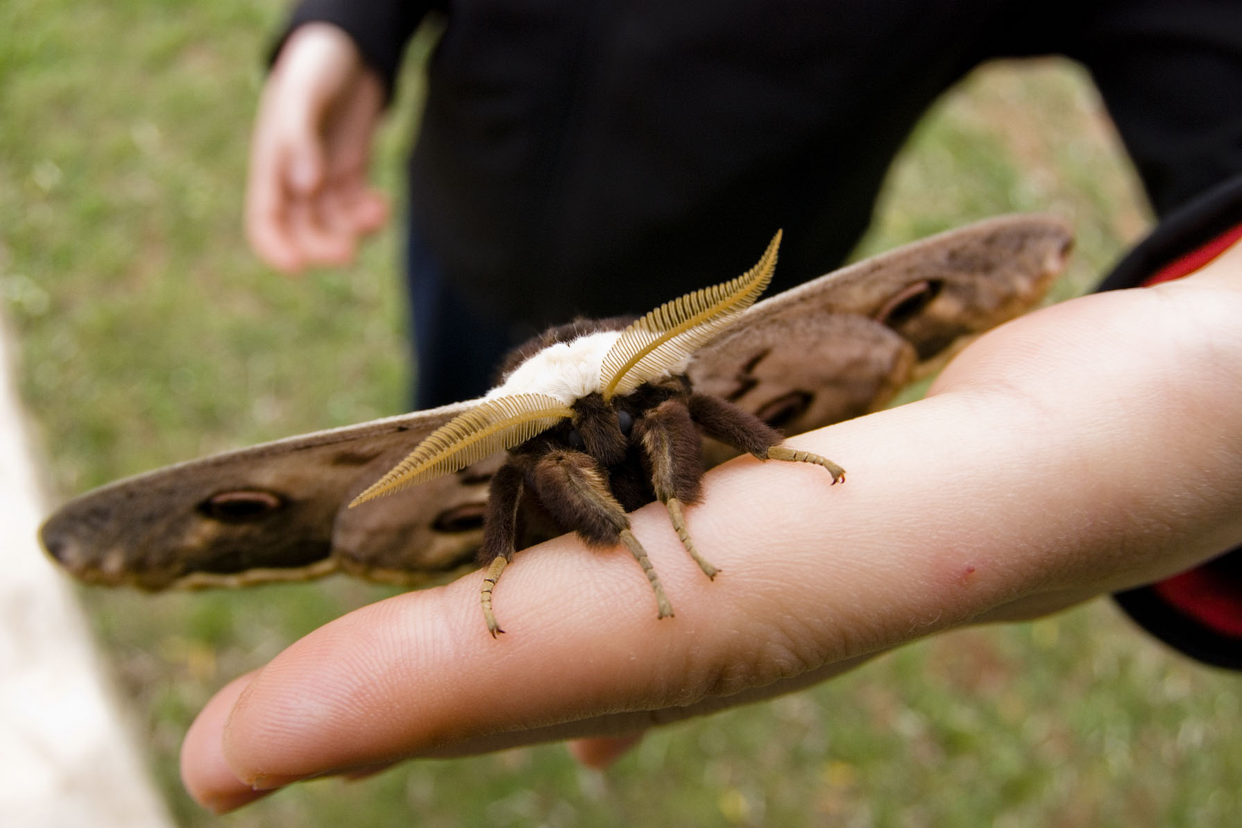 Saturnia pyri front side, on the finger.